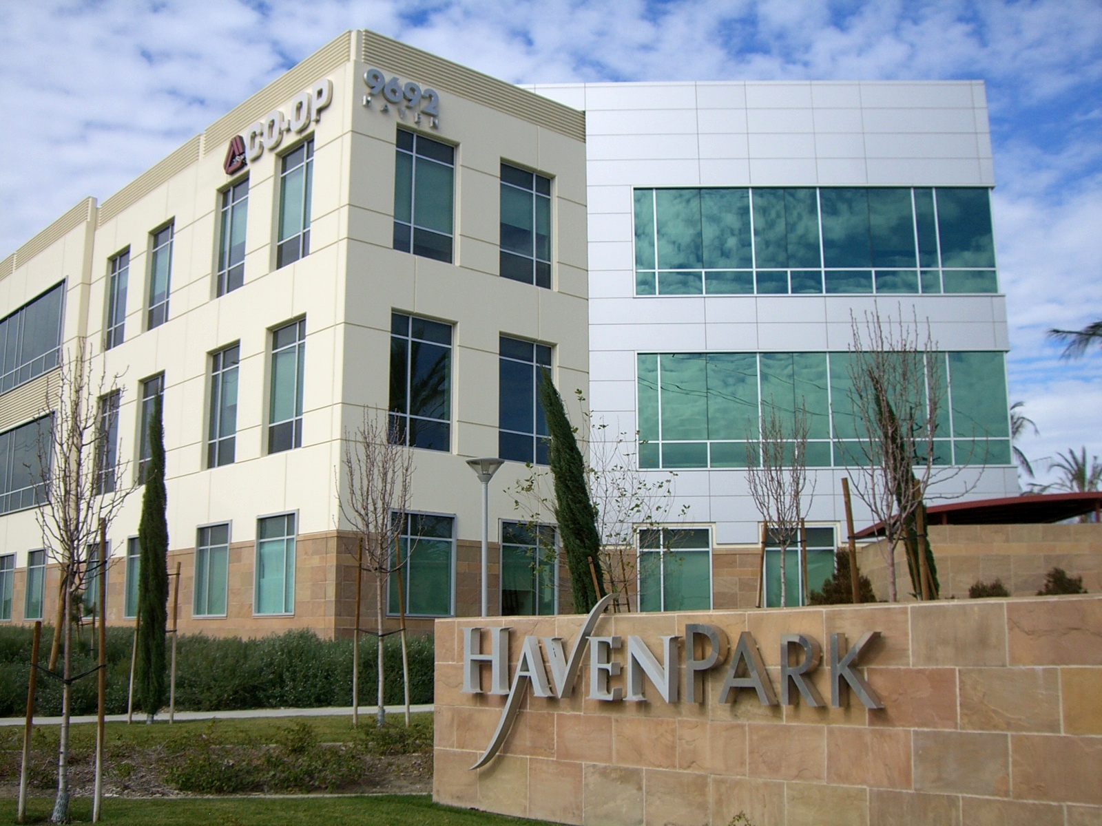 A business park in Rancho Cucamonga, California